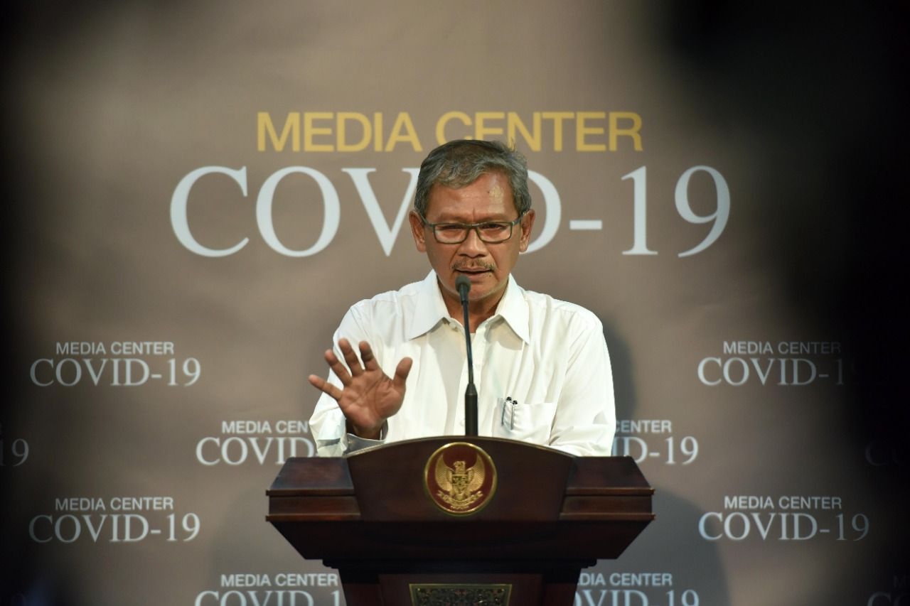 Achmad Yurianto as spokesperson of the Indonesian Government's COVID-19 response team